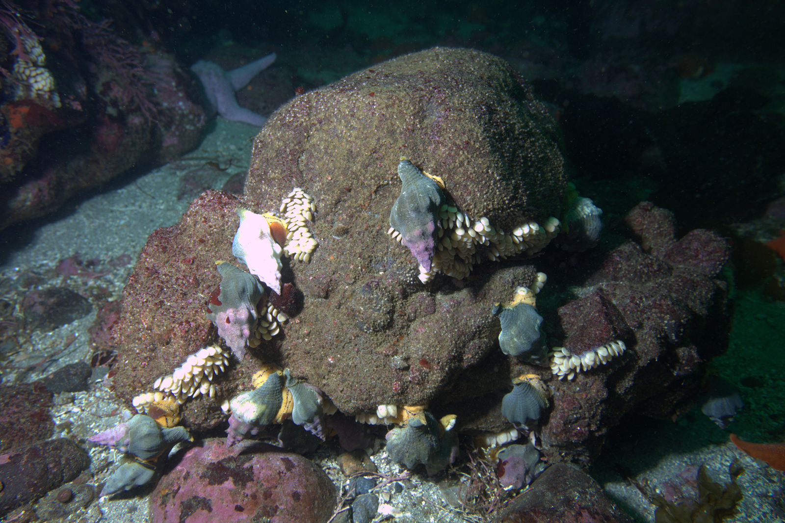 Photo of Kelletia kelletii laying their eggs on a rock at Dali's Wall (near Pebble Beach). This dive was conducted as part of the REEF expedition in Monterey, CA. Location (General): Pebble Beach. Site (Specific): Dali's Wall.